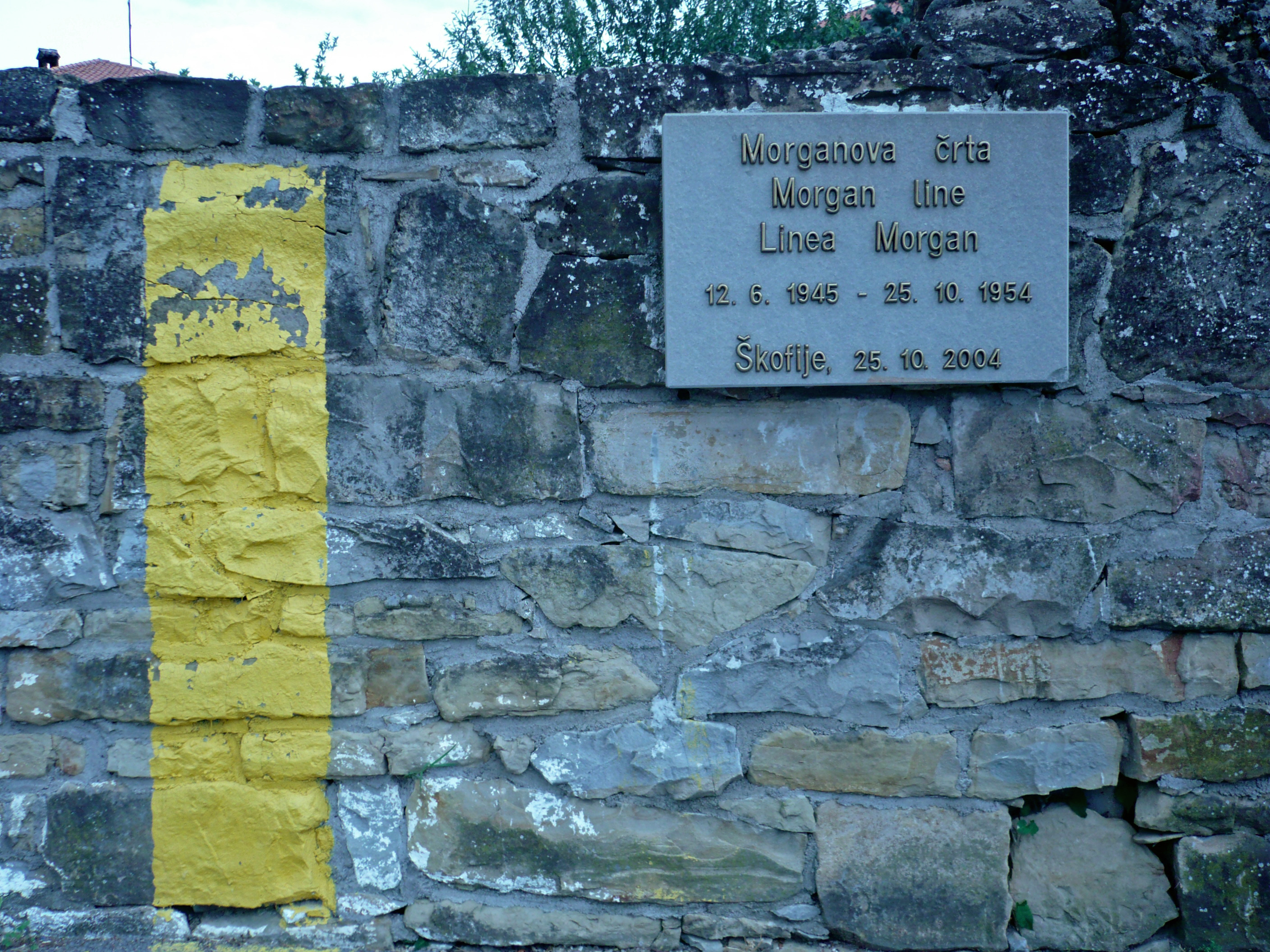 Plaque to the Morgan Line in Spodnje Škofije, Koper municip.